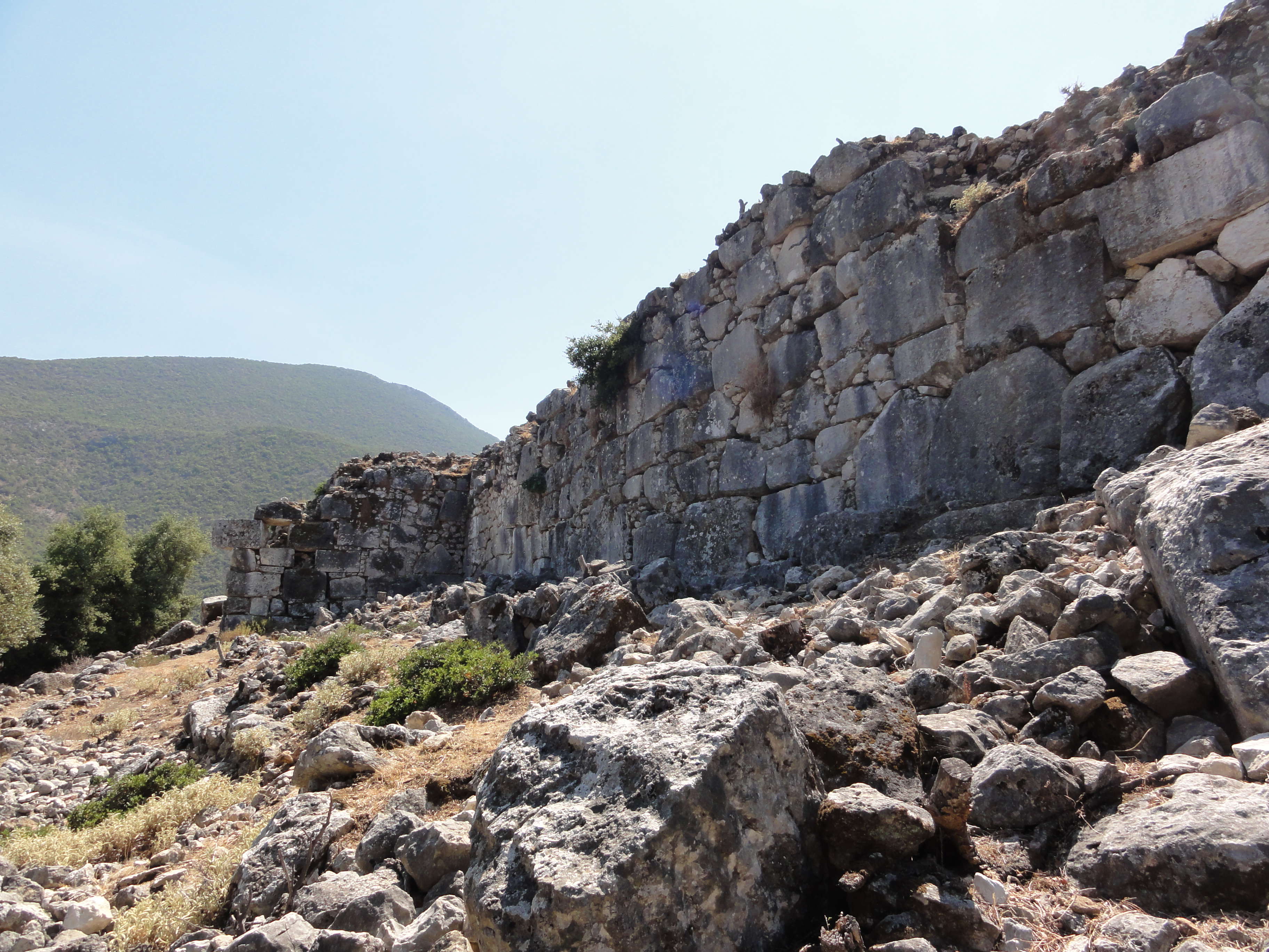 Photographs taken in Kefalonia.